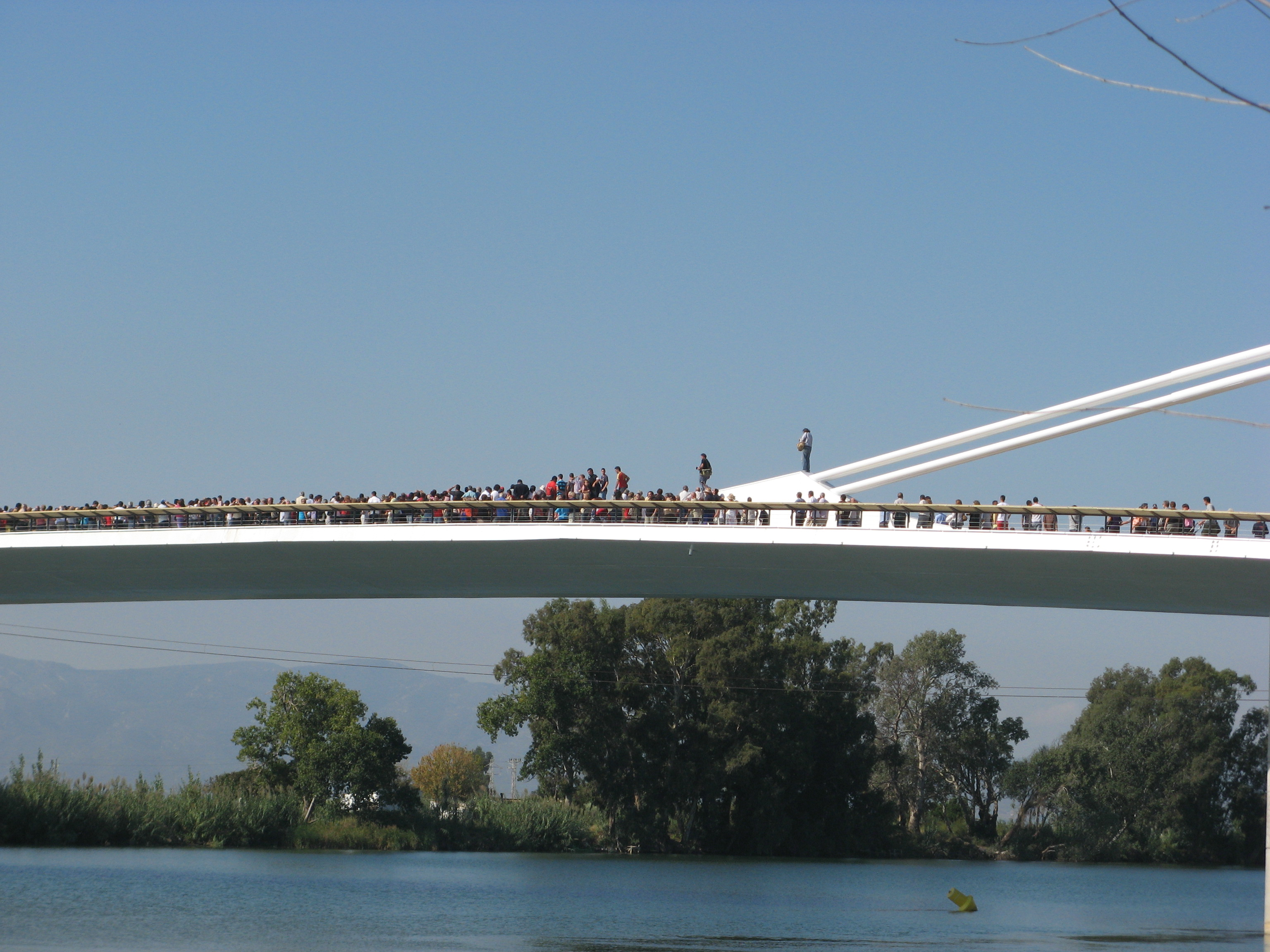 Bridge Lo Passador in Deltebre (Catalonia)